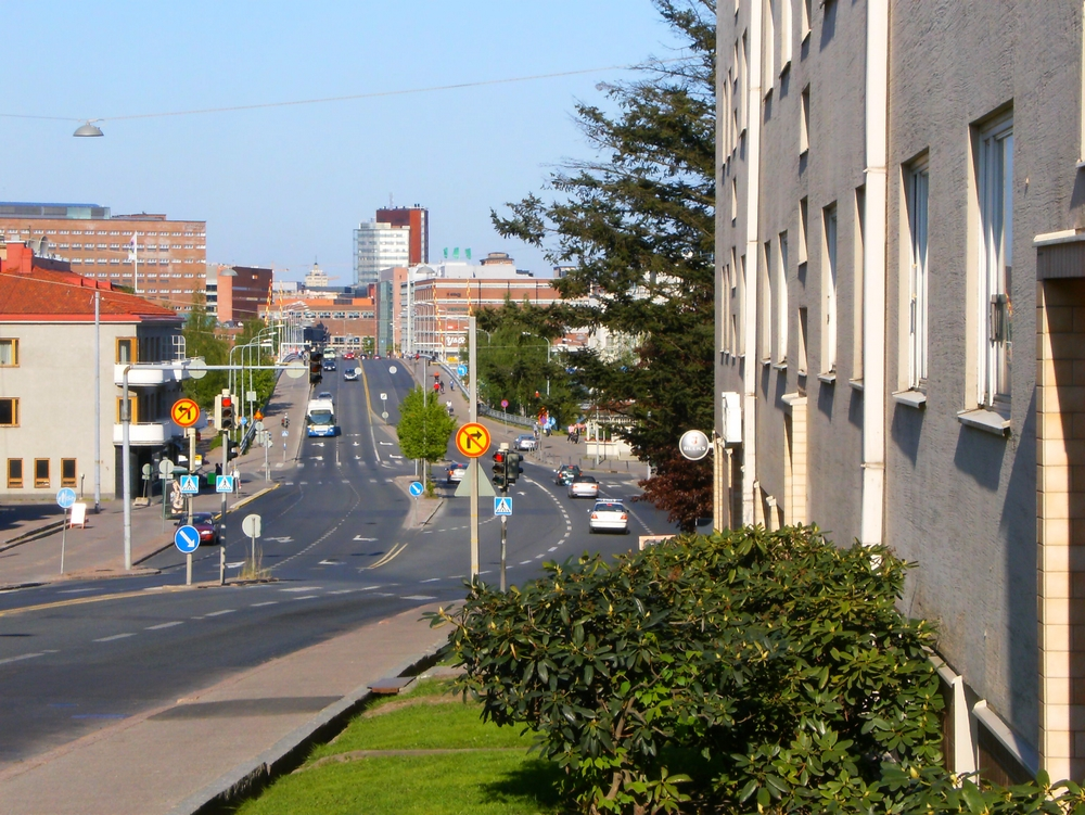 The Lauttasaari Bridge, direction east (towards Ruoholahti), Helsinki, Finland